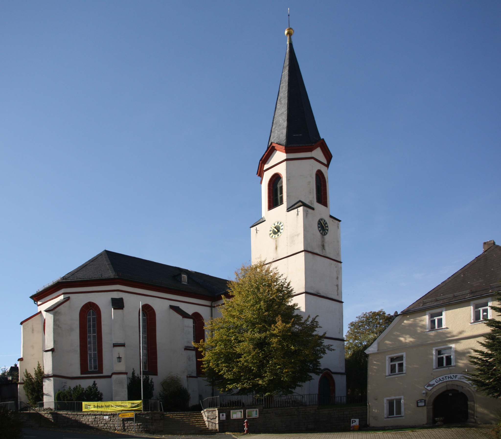 St. Maria churche in Weißdorf